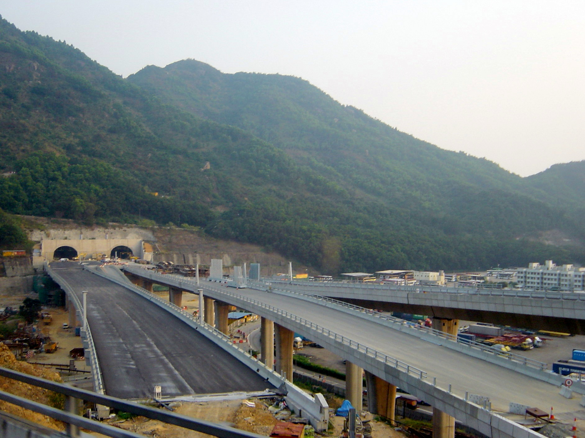 Nam Wan Tunnel, Tsing Yi Island, Hong Kong. Under Construction in December, 2006.